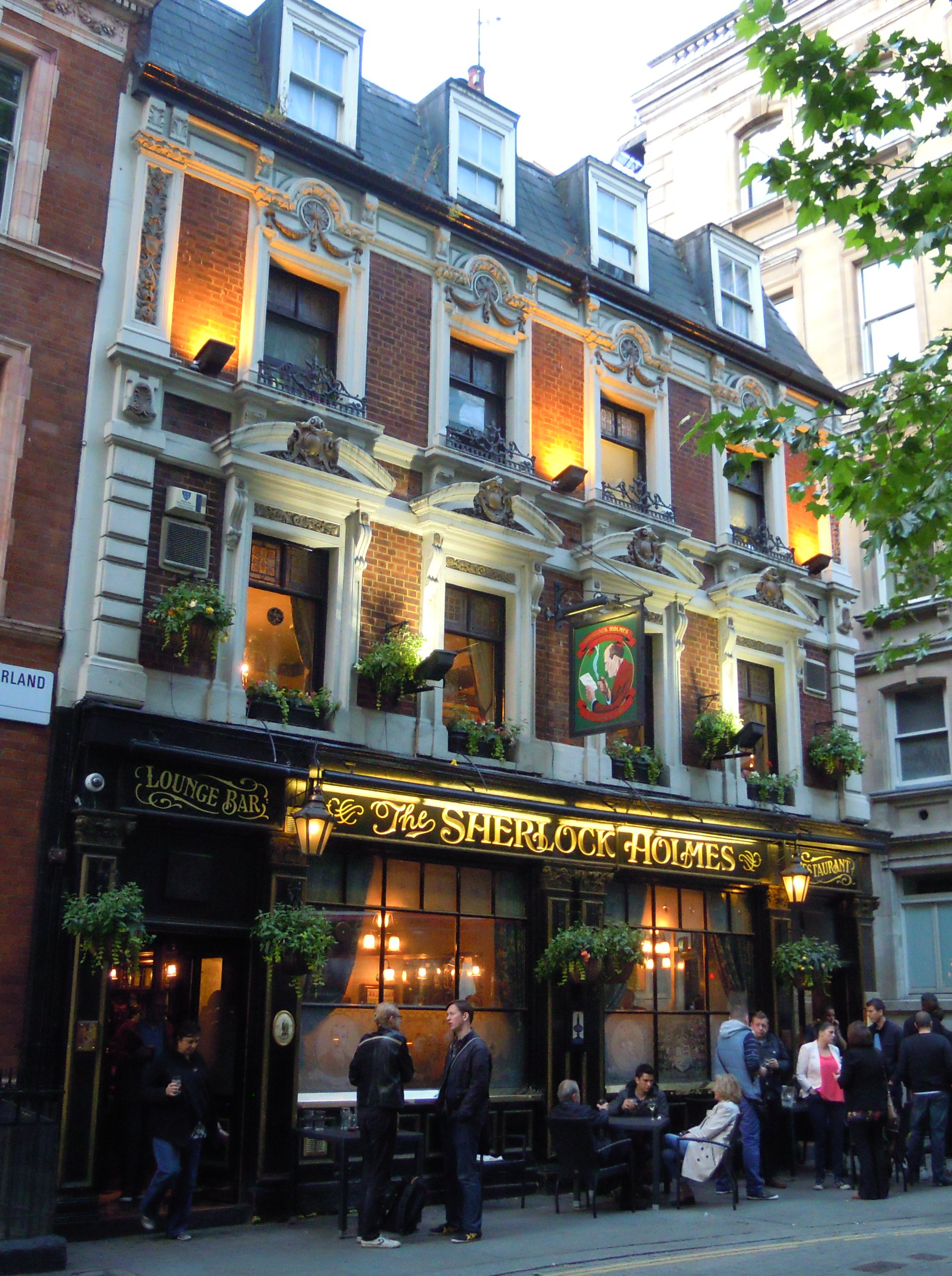 Exterior of The Sherlock Holmes themed public house in London